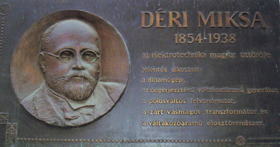 Commemorative plaque of Miksa Déri in Baja, Déri Miksa Alley